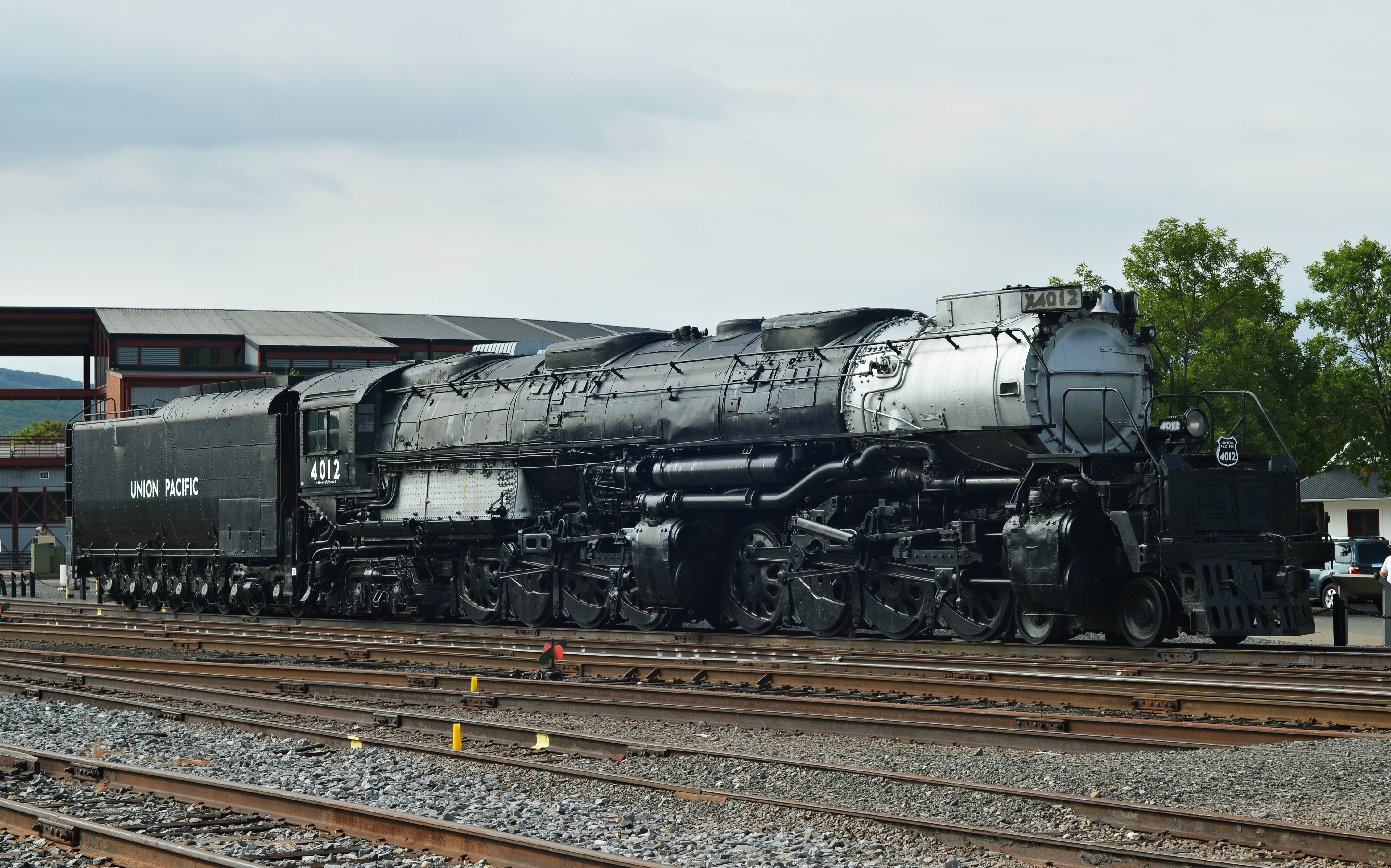 The Union Pacific 4012 "Big Boy" locomotive at the Steamtown National Historic Site.